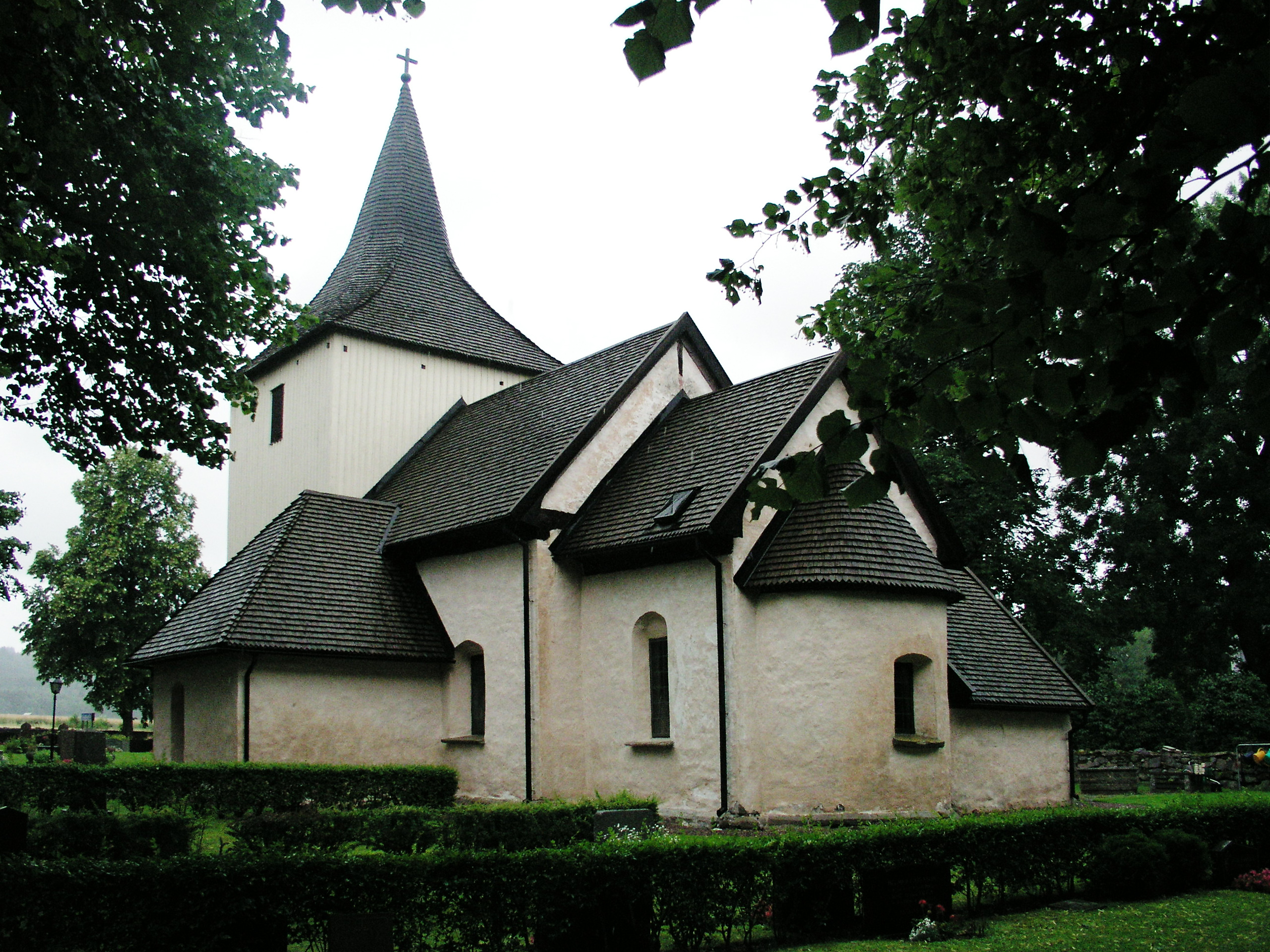 Väversunda kyrka / Väversunda church. The picture was taken by Håkan Svensson (Xauxa) the 30th of July 2005.